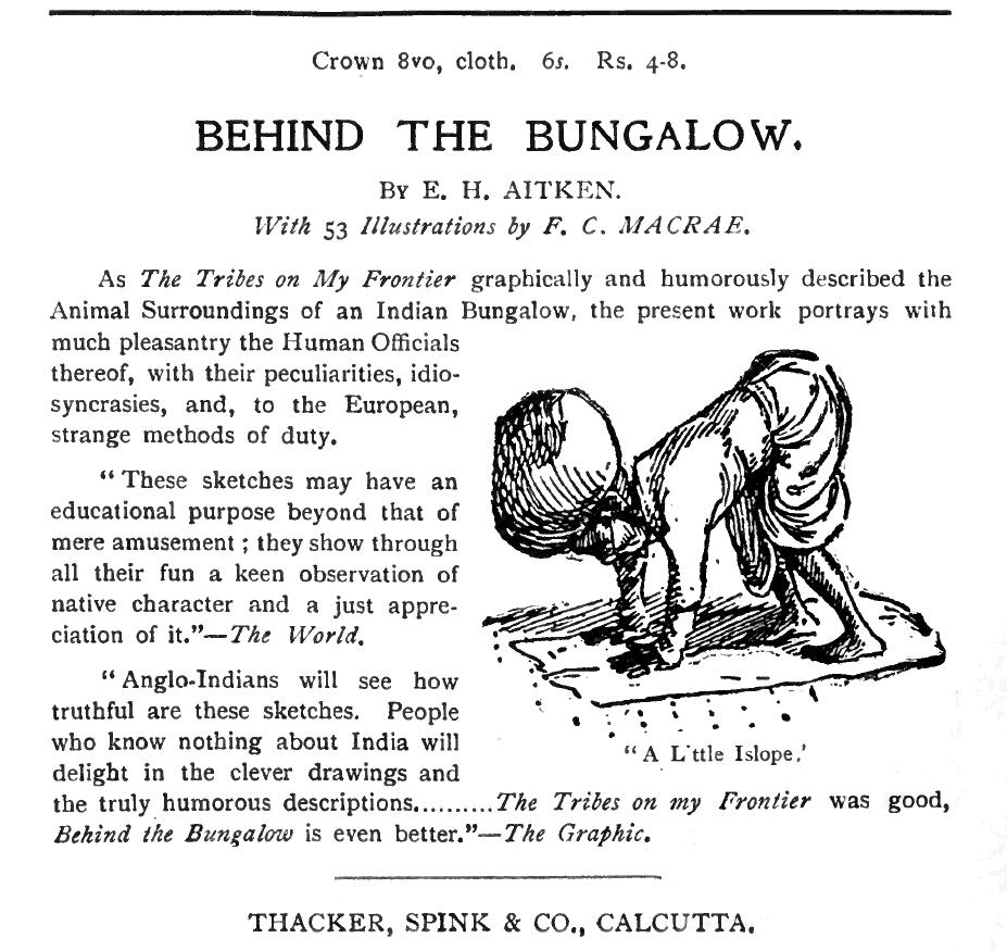 advert for Edward Hamilton (Eha's) "Behind the bungalow"